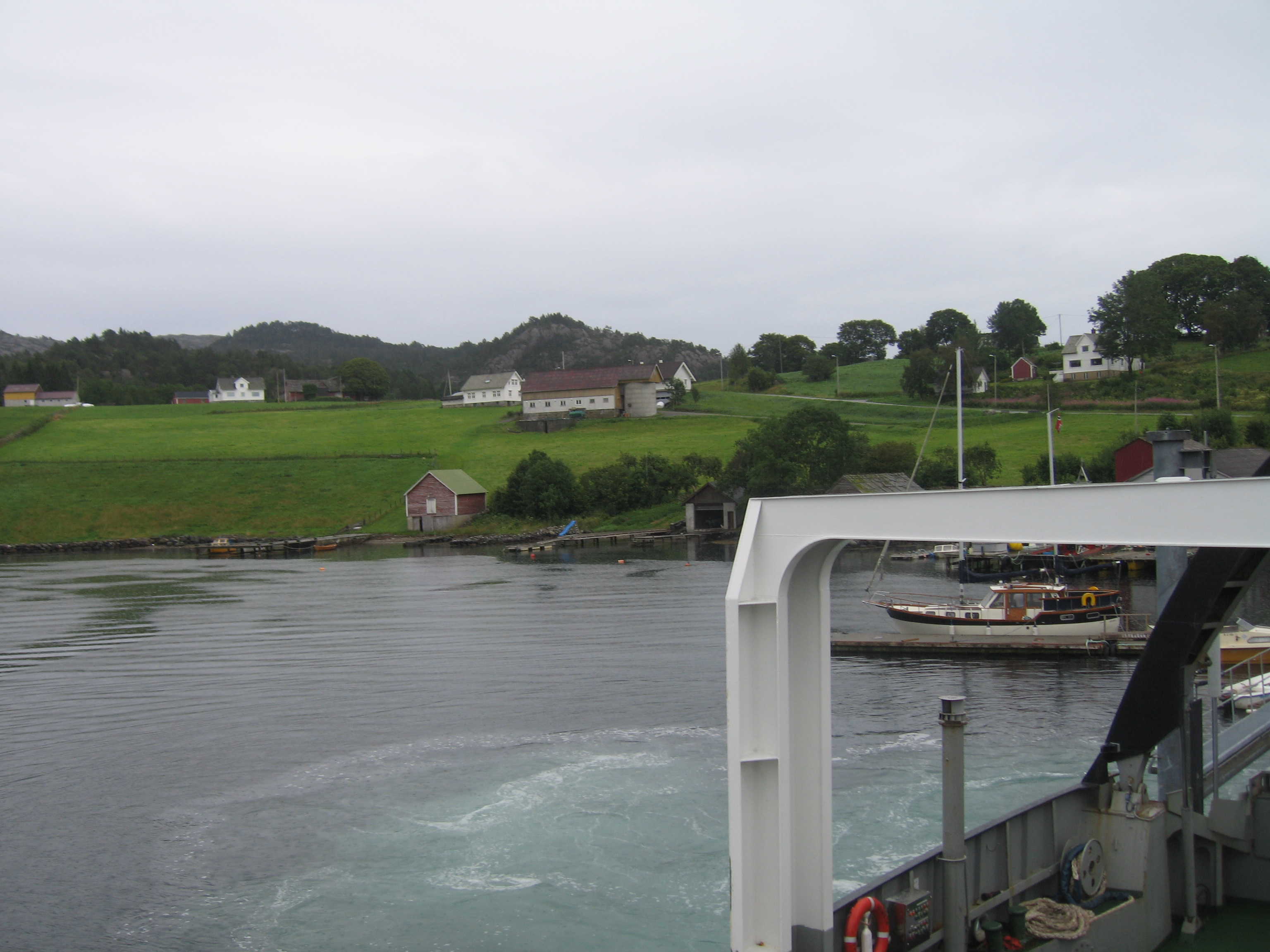 The island of Huglo located in Stord, Hordaland, Norway. The view is from the ferry connecting Huglo with the islands Tysnes and Stord.